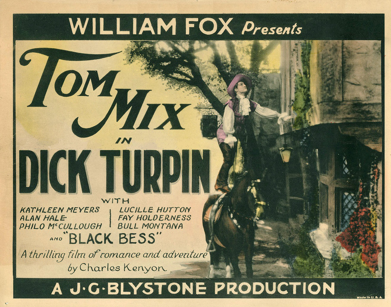 Lobby card for the film Dick Turpin (1925).